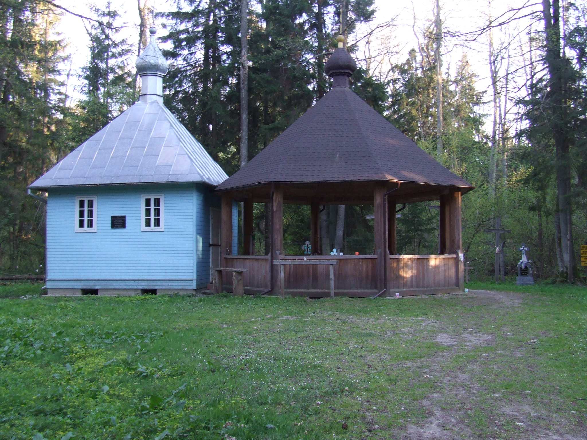 Krynoczka (Hajnowka) – holly place of the Orthodox Church in Poland.